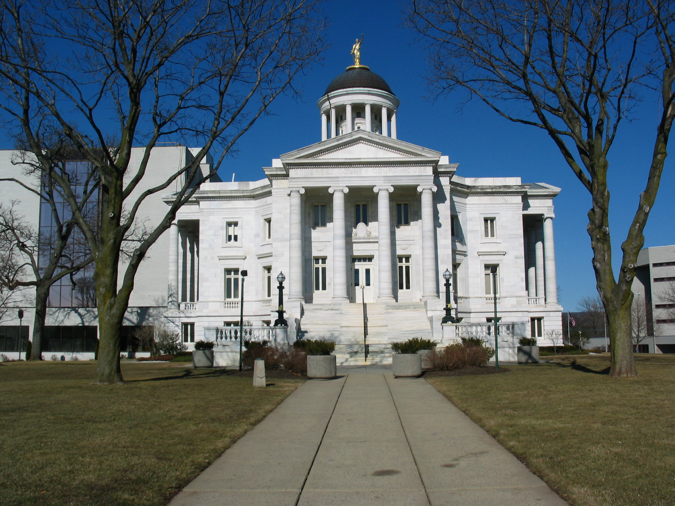 Photo of the Historic and Modern Somerville Court Houses. Photo by Timothy Van Vliet 2004